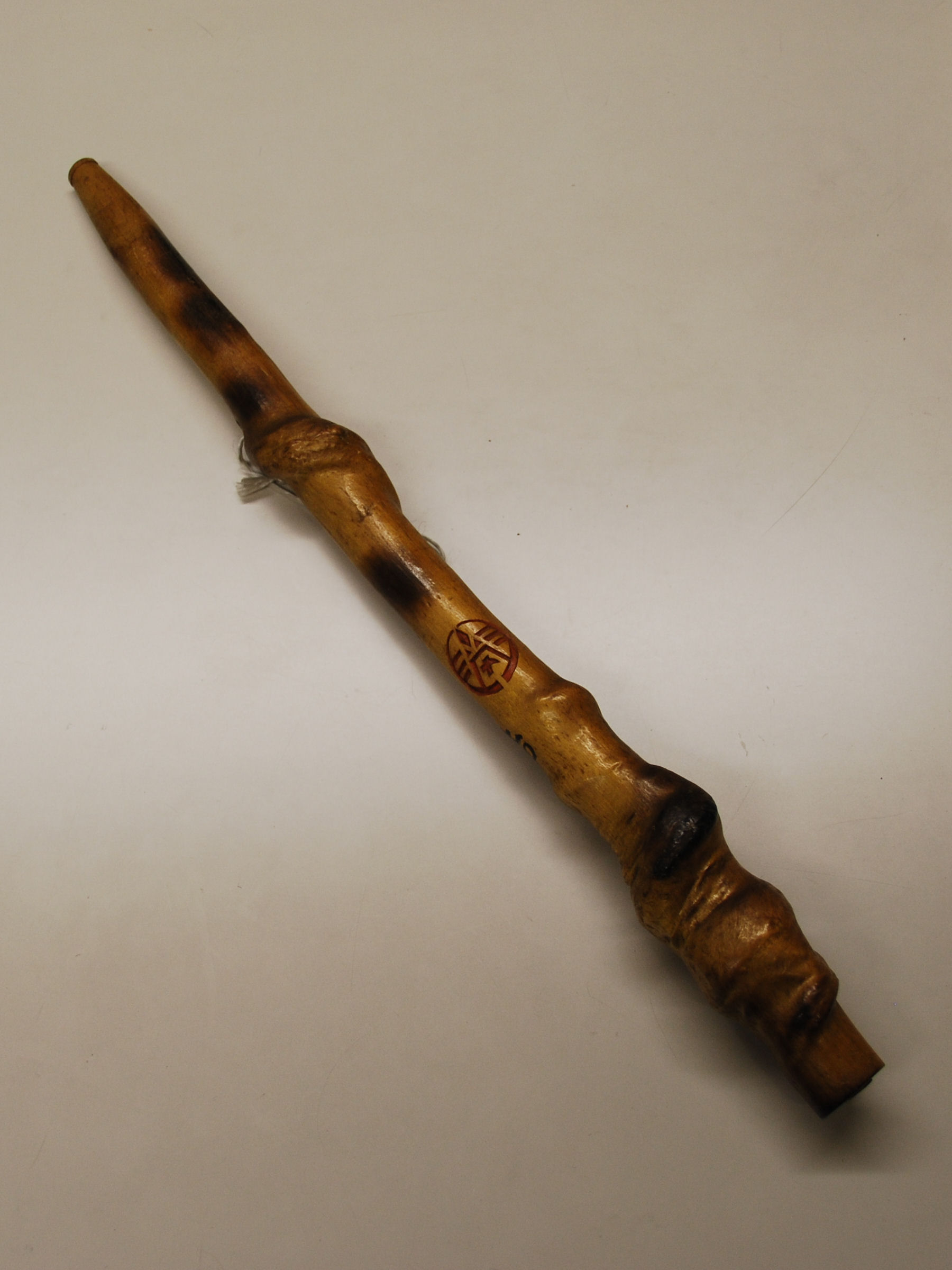 A long wooden pipe to be used as a club to defend oneself. Labor union prepared these tools in the Mitsui-Miike labor unrest. About 60cm long.